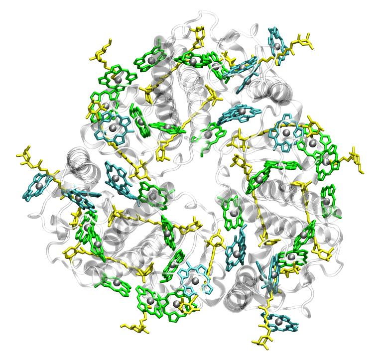 Light harvesting complex (LHCII) of higher plants. Top view.